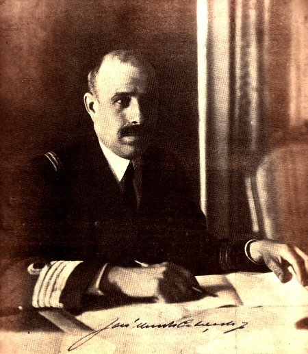 President of Portugal José Mendes Cabeçadas in maio 1926.